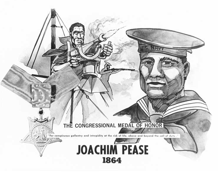 United States Navy poster featuring Medal of Honor recipient Seaman Joachim Pease. Pease received the Medal of Honor for his conduct while loader of the No. 2 Gun on USS Kearsarge as she battled CSS Alabama off Cherbourg, France on 19 June 1864.